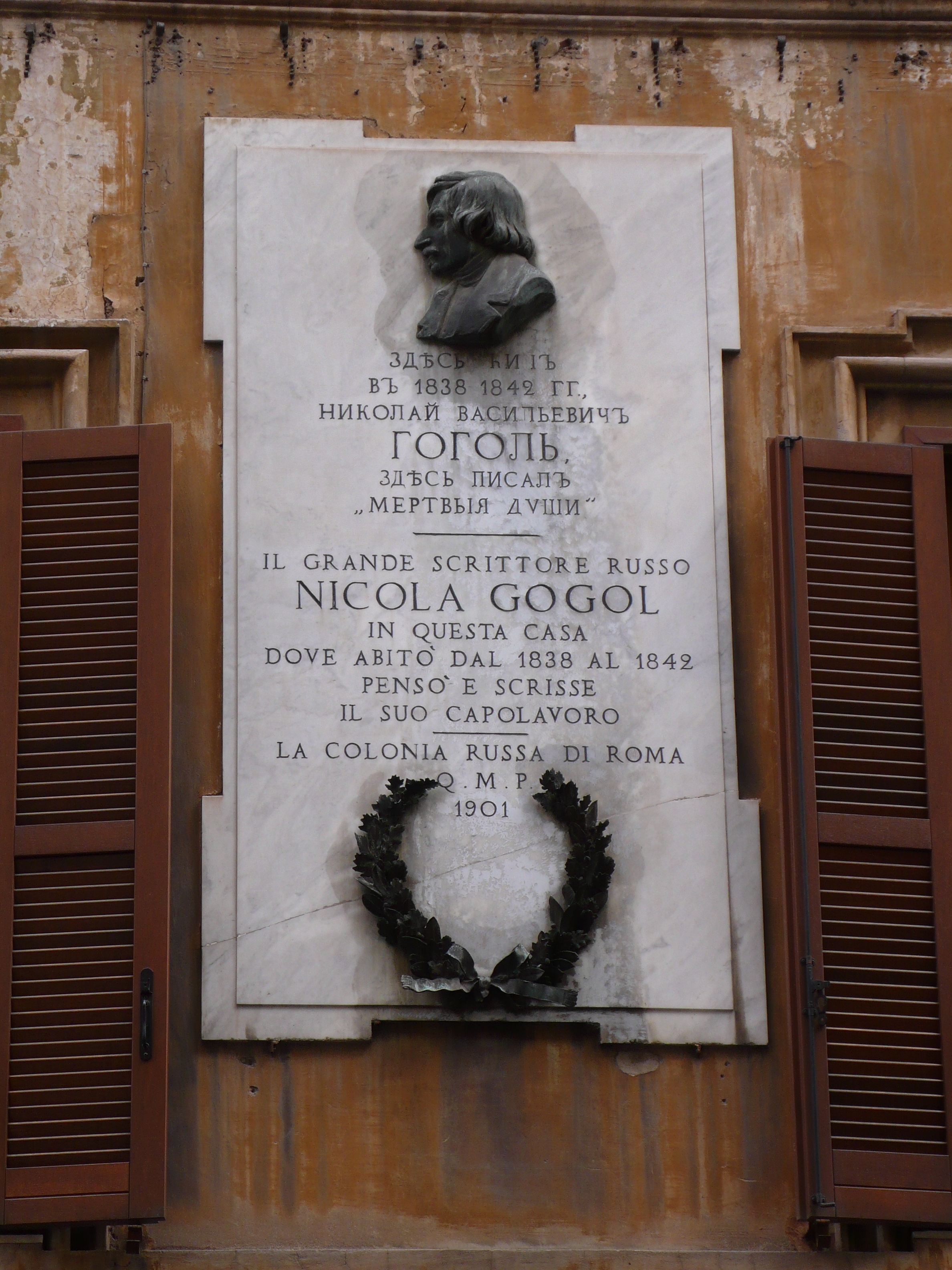 Sign on Gogol's house in Rome